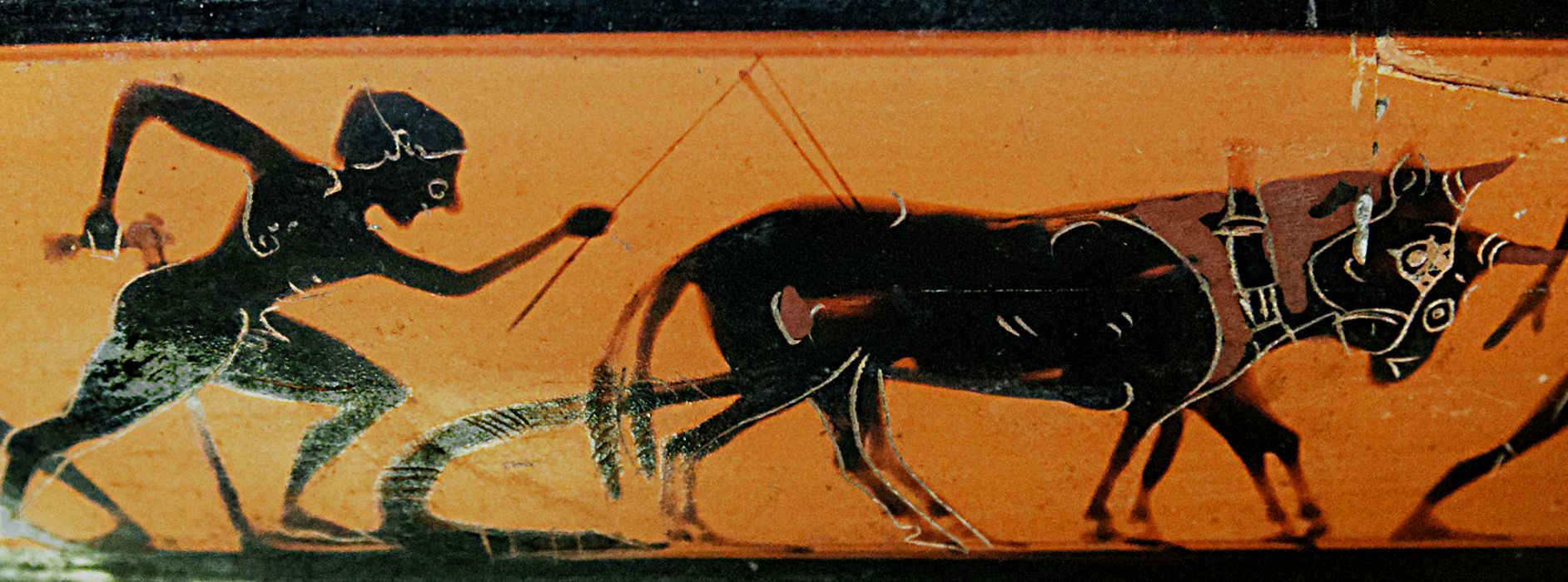 Ploughman, detail from a scene representing people working in the fields. Attic black-figure band-cup.